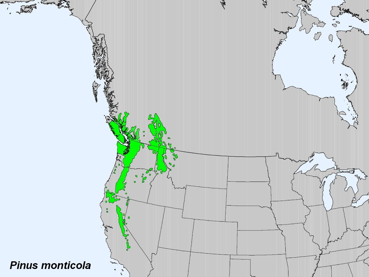 Range map of western white pine (Pinus monticola)